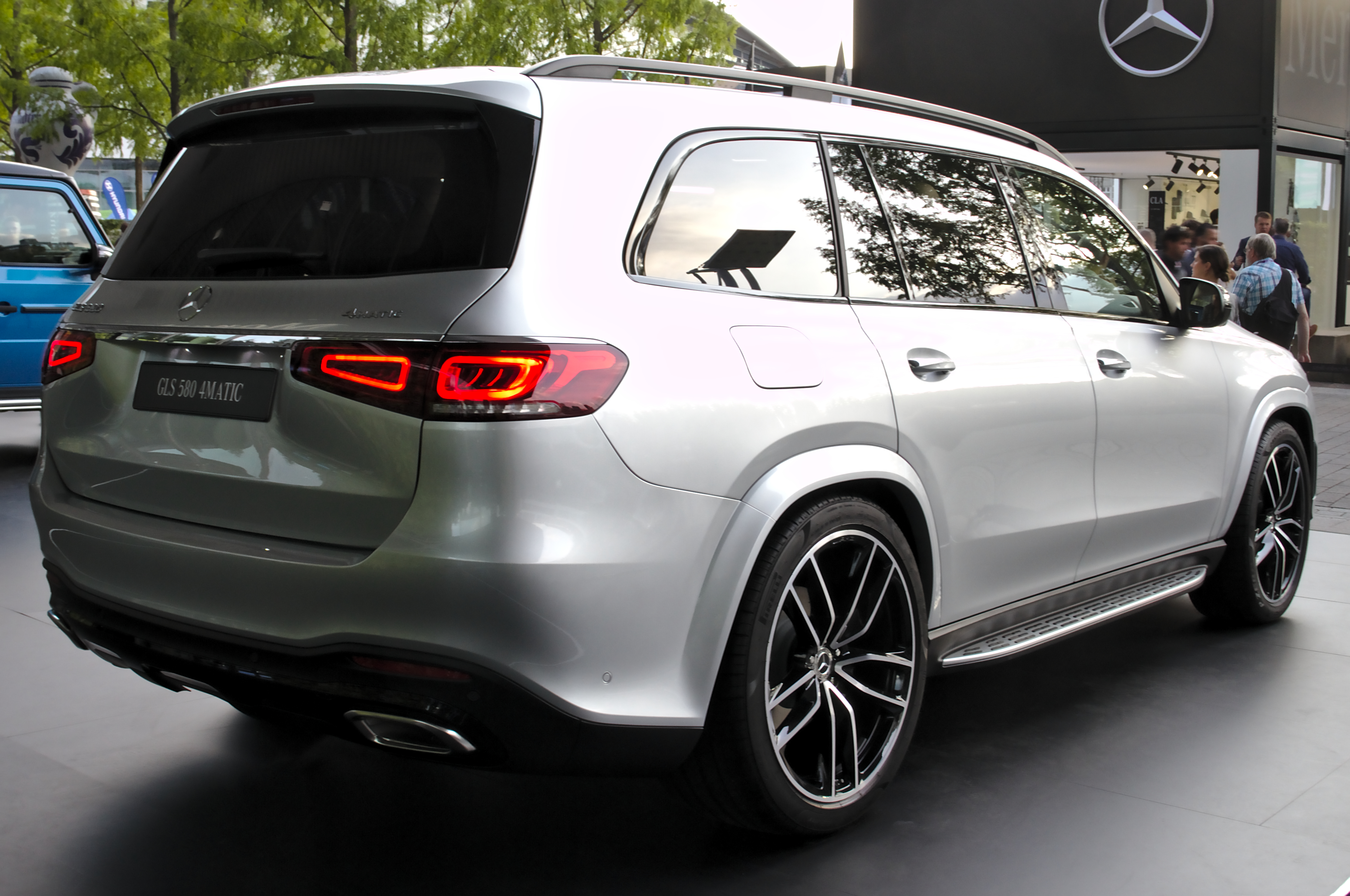 Mercedes-Benz_X167 at IAA 2019